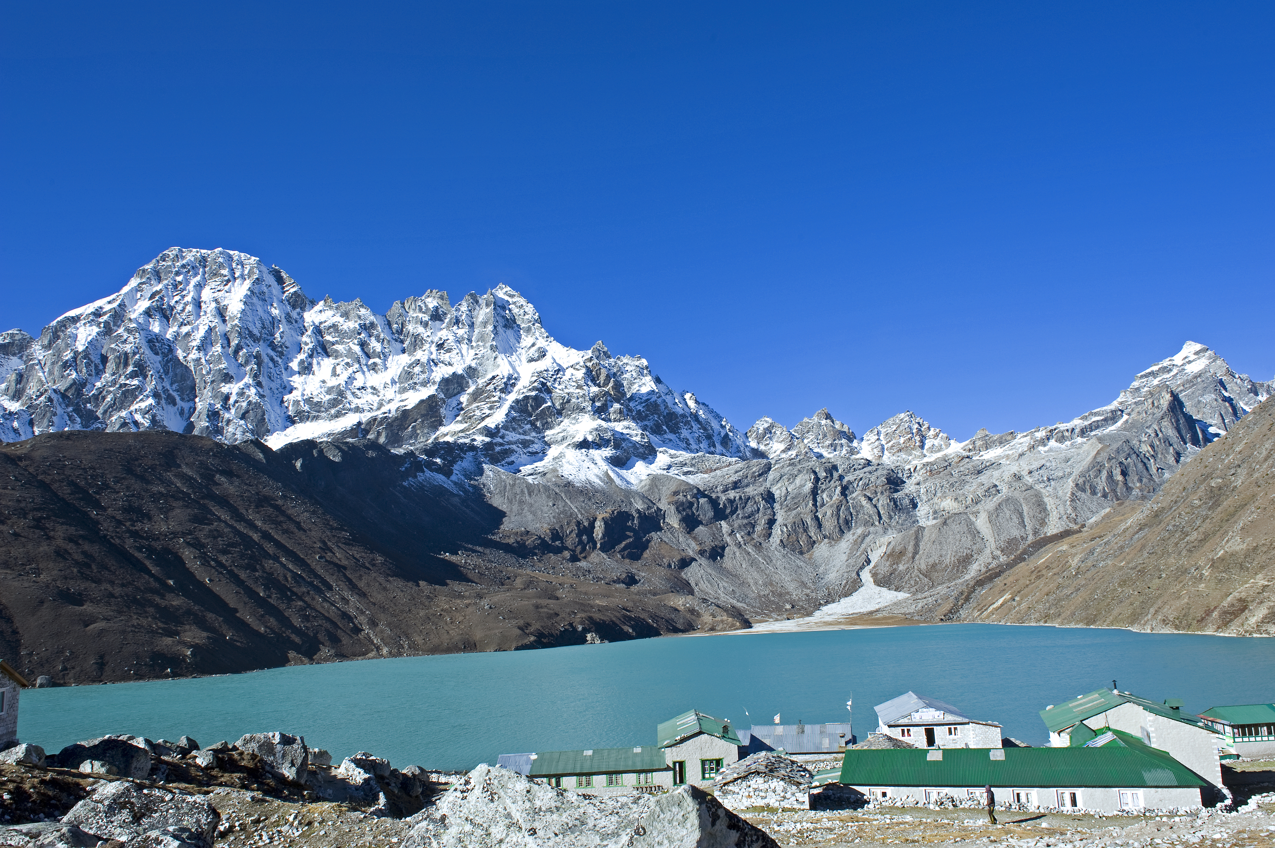 Gokyo lake viewed from Gokyo